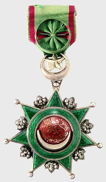 Osmanie 3-rd class